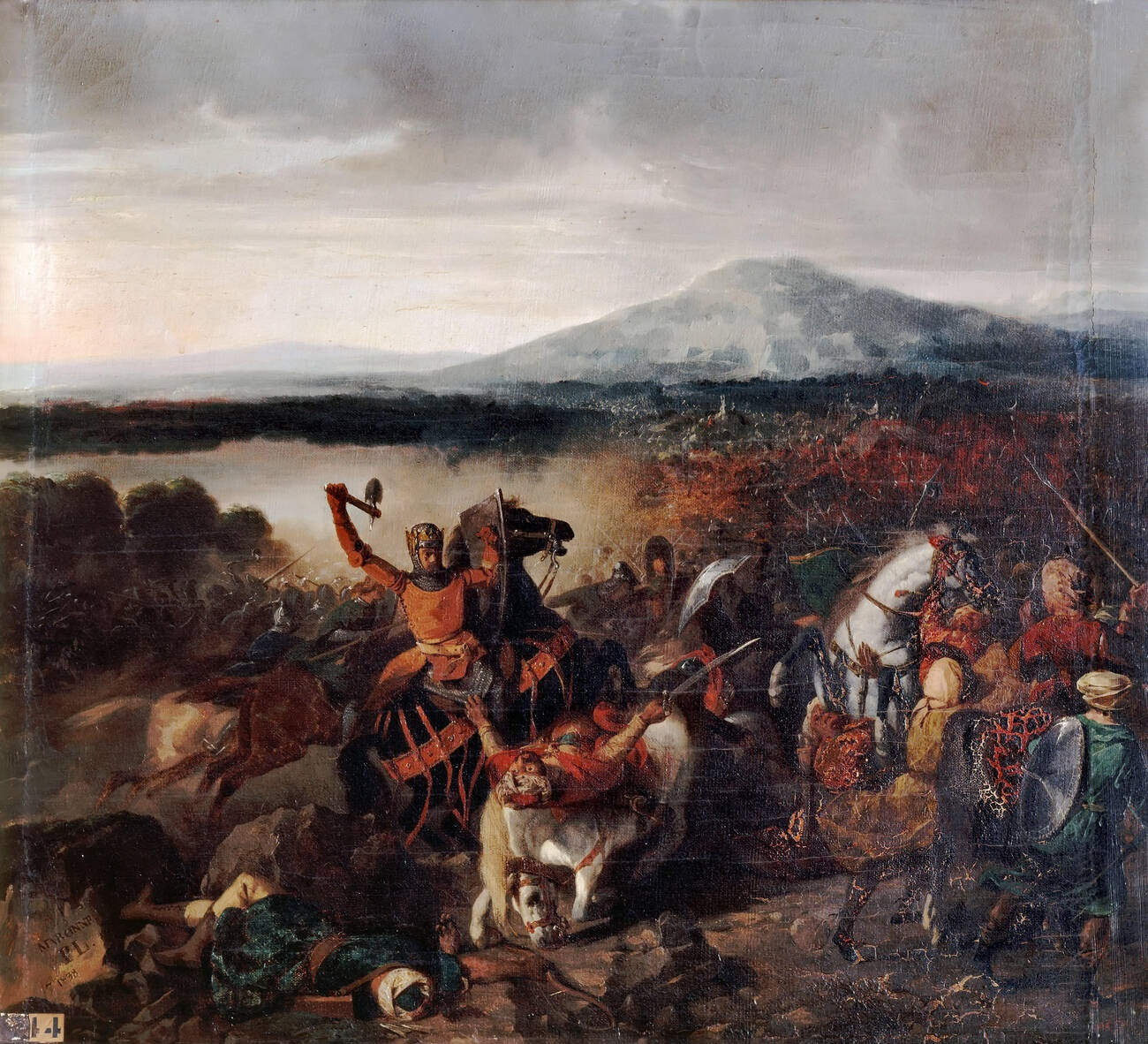 Roger I de Sicilia en la batalla de CeramiRoger I of Sicily at the Battle of Cerami in 1063